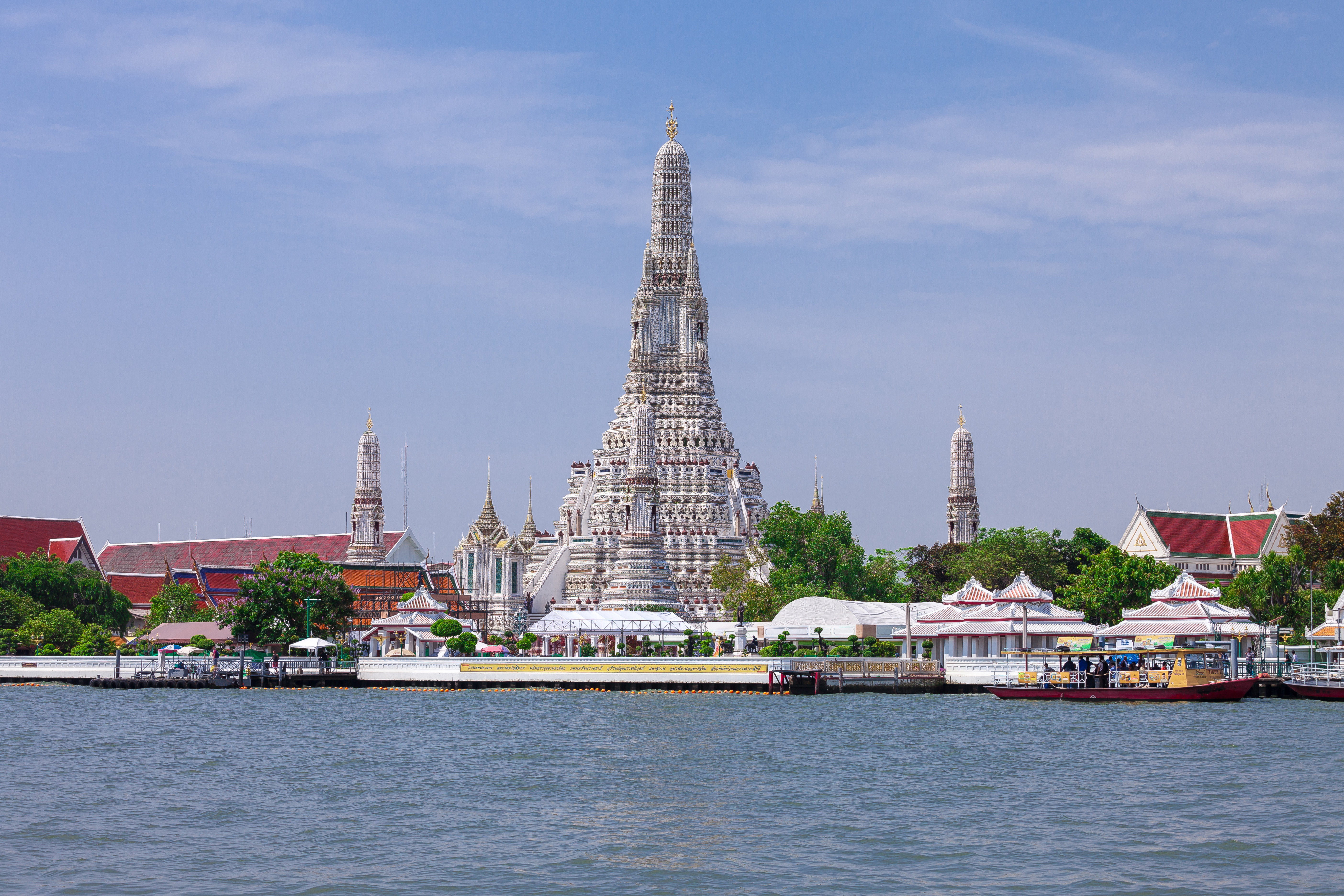 Phra Prang Wat Arun during day.